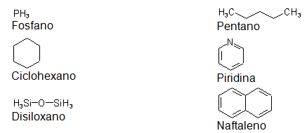 Parent hydrides examples